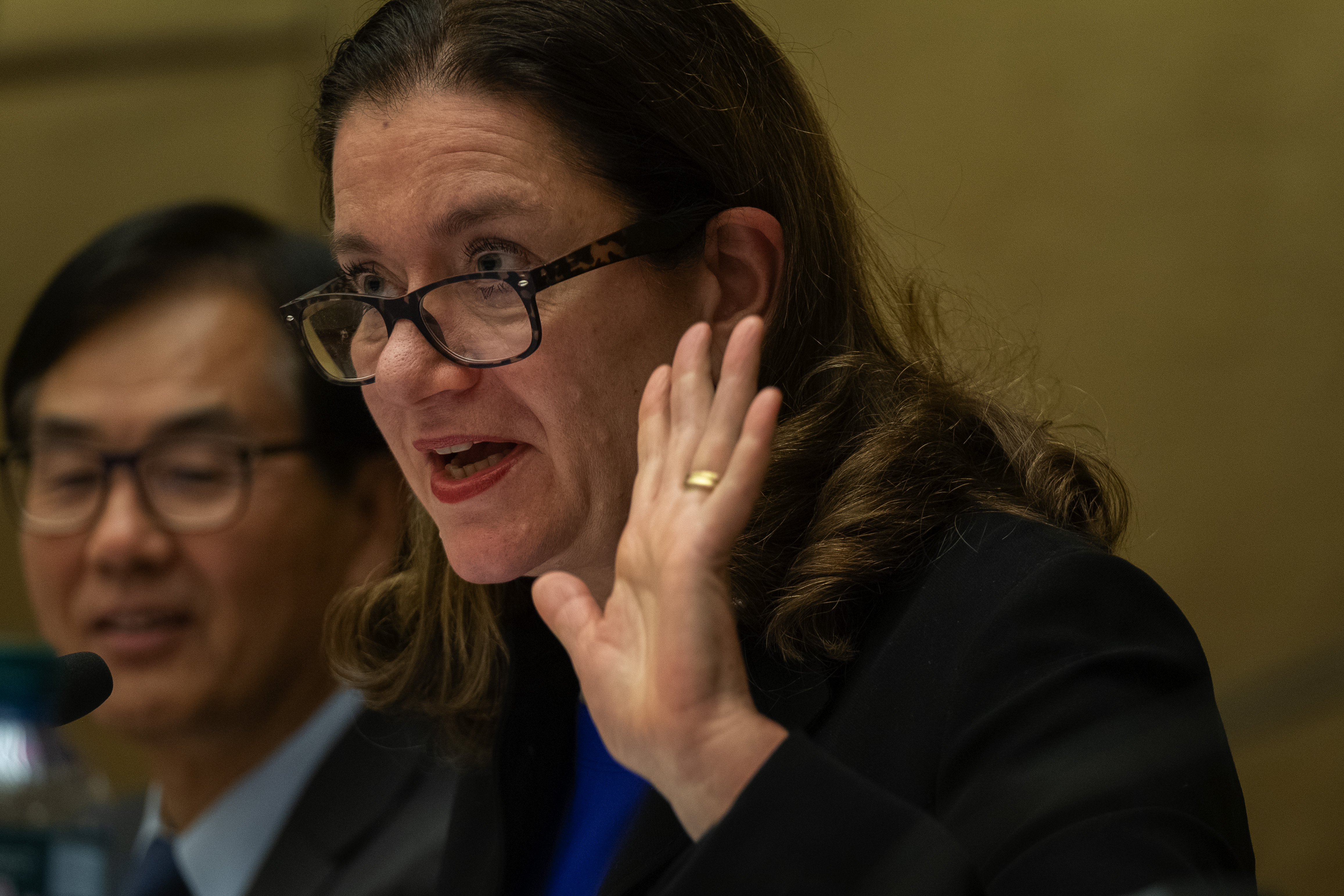 en:Monique van Daalen|Monique T.G. van Daalen Speaking during UNCTAD's second second Ambassadors’ Roundtable on Investing in the Sustainable Development Goals (SDGs), held on 11 November as part of the organization's Investment and Enterprise Commission. Photo: Gerry Kiruthu More